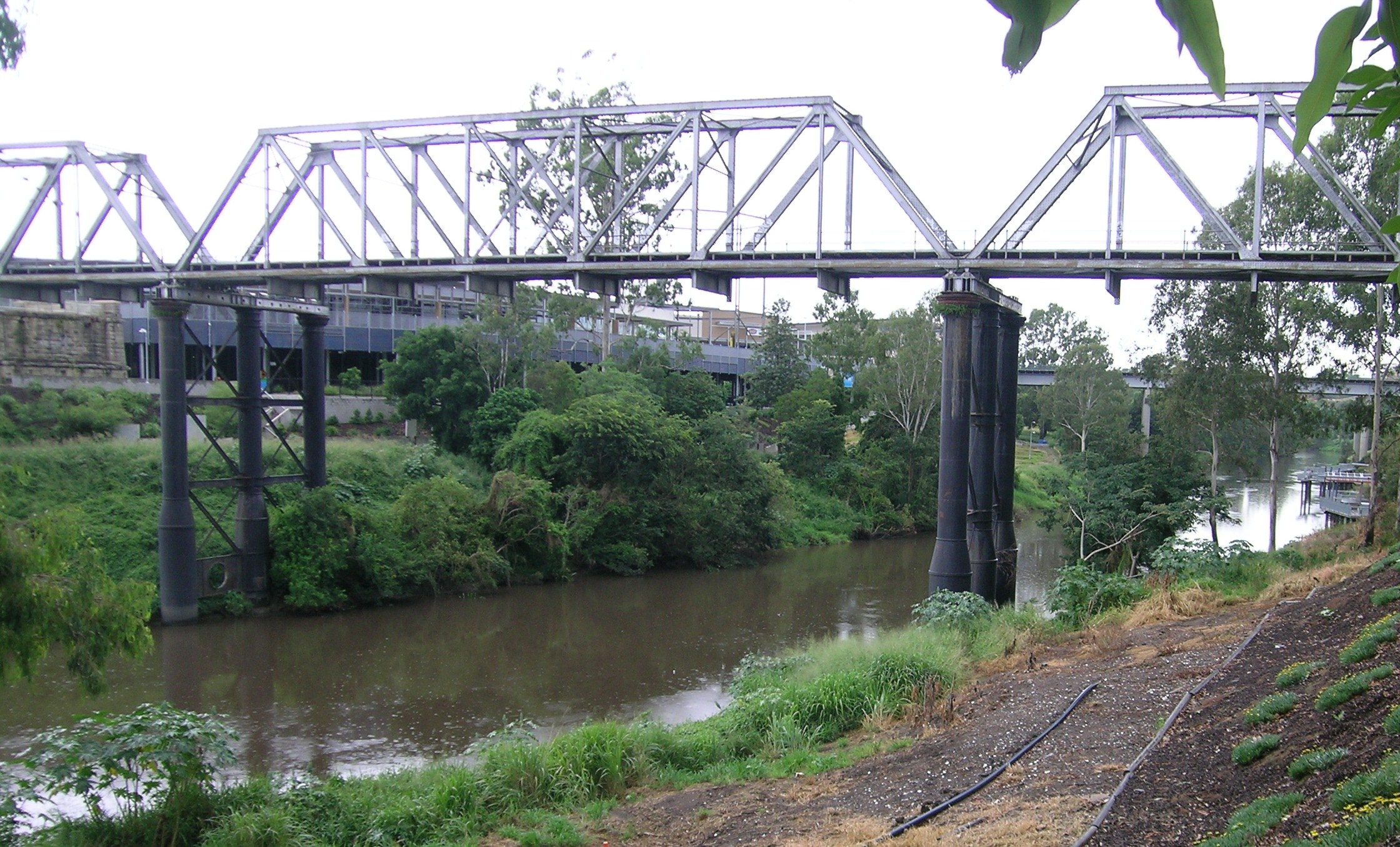 Rail bridge across the Bremer River, Ipswich, Queensland